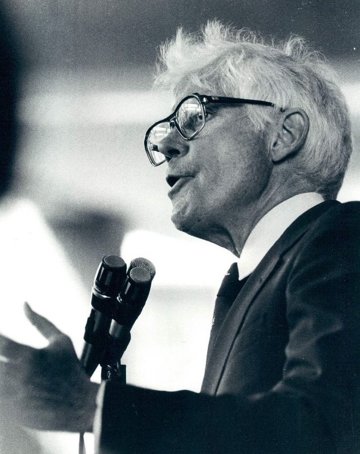 Born in 1922; twenty years a Republican Congressman from Illinois. Jerry Ford called Anderson "the smartest man in Congress." From WIKIPEDIA: "John Bayard Anderson, after being defeated in the Republican primaries, entered the general election as an independent candidate, campaigning as a moderate Republican alternative to Reagan's conservatism. However, his campaign appealed primarily to frustrated anti-Carter voters. His support progressively evaporated through the campaign season as his supporters were pulled away by Carter and Reagan. His running mate was Patrick Lucey, a Democratic former Governor of Wisconsin and then Ambassador to Mexico, appointed by President Carter."